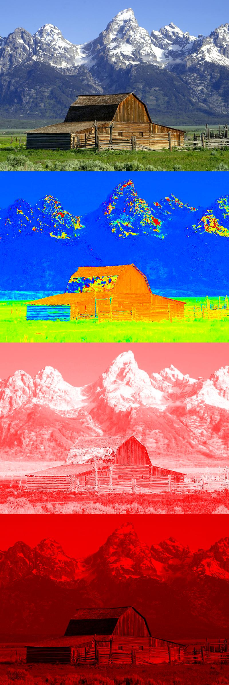 This takes an image (Image:Barns grand tetons.jpg) and displays the H, S and V elements of it. Note that the H element is the only one displaying colour. Compare the dark on the left side of the barn roof and the white of the snow; in both cases these have colour, but the saturation is very low, causing them to be near-greyscale; the intensity of the barn is much lower than the snow. The green of the grass is highly saturated and of moderate intensity; the blue of the mountains is consistent in colour but varies in intensity and saturation; and the sky has constant colour and intensity but varying saturation. Generator code In MATLAB: RGBimage = imread('barns_grand_tetons_reduced.jpg'); [height,width,depth]=size(RGBimage); HSVimage=rgb2hsv(RGBimage); % Caution: MATLAB's hsv2rgb routine is very memory-hungry. I had to halve % the size of the source image to avoid running out or memory (even with % a lot of swap space allocated). % Newer versions of matlab need outputimage=zeros(height*4,width,depth,'double'); outputimage=double(zeros(height*4,width,depth)); for w=1:width, for h=1:height, outputimage(h,w,1) = HSVimage(h,w,1); %Copy H, S and V for normal image outputimage(h,w,2) = HSVimage(h,w,2); outputimage(h,w,3) = HSVimage(h,w,3); outputimage(h+height,w,1) = HSVimage(h,w,1); %Copy H only for first component outputimage(h+height,w,2) = 1; outputimage(h+height,w,3) = 1; outputimage(h+(2*height),w,2) = HSVimage(h,w,2); %S only for second component outputimage(h+(2*height),w,1) = 1; outputimage(h+(2*height),w,3) = 1; outputimage(h+(3*height),w,3) = HSVimage(h,w,3); %V only for third component outputimage(h+(3*height),w,1) = 1; outputimage(h+(3*height),w,2) = 1; end end im2=hsv2rgb(outputimage); image(im2); imwrite(im2,'HSV_separation.jpg','jpeg'); Based on the (public domain) photo Image:Barns grand tetons.jpg. Code above and resulting output by Mike1024.